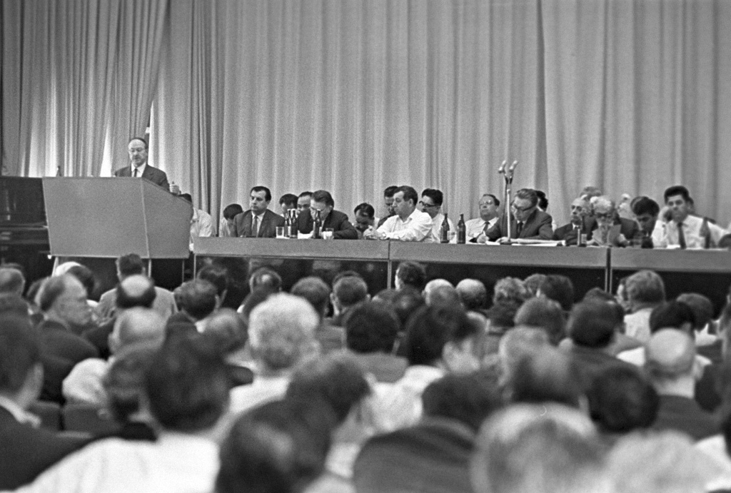 “Secretary of CPSU Central Committee, Boris Ponomaryov”. Secretary of the CPSU Central Committee, Boris Ponomaryov. A meeting of foreign representatives and personal correspondents of Novosti press agency.